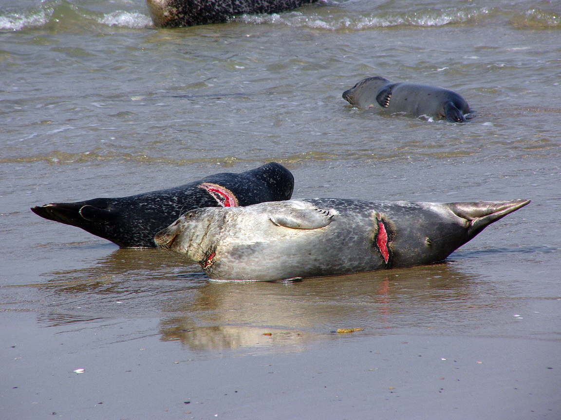 Common Seal